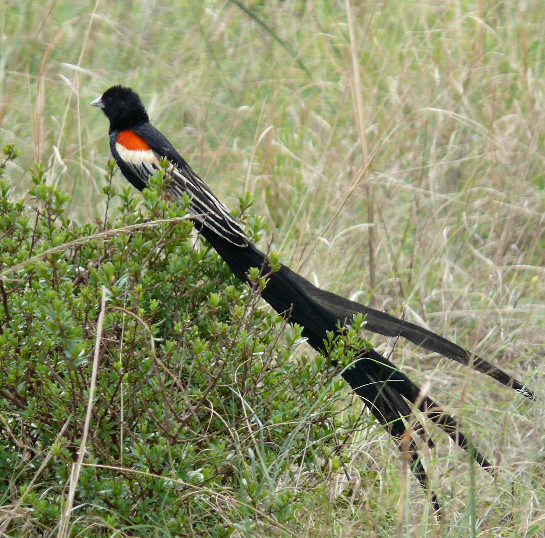 I shot this photo during my recent visit to South Africa. We were visiting the Rhino and Lion park near Joburg on 29th Oct 2007, when I was fascinated by the flight of this beautiful bird. I waited for it to settle down and shot this photo.